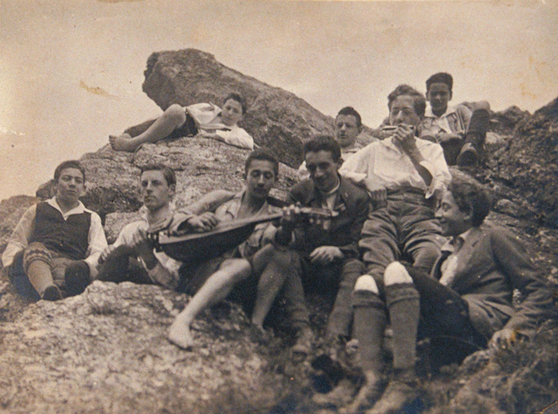 Members of Blau-Weiss, a Zionist youth movement, in Austria